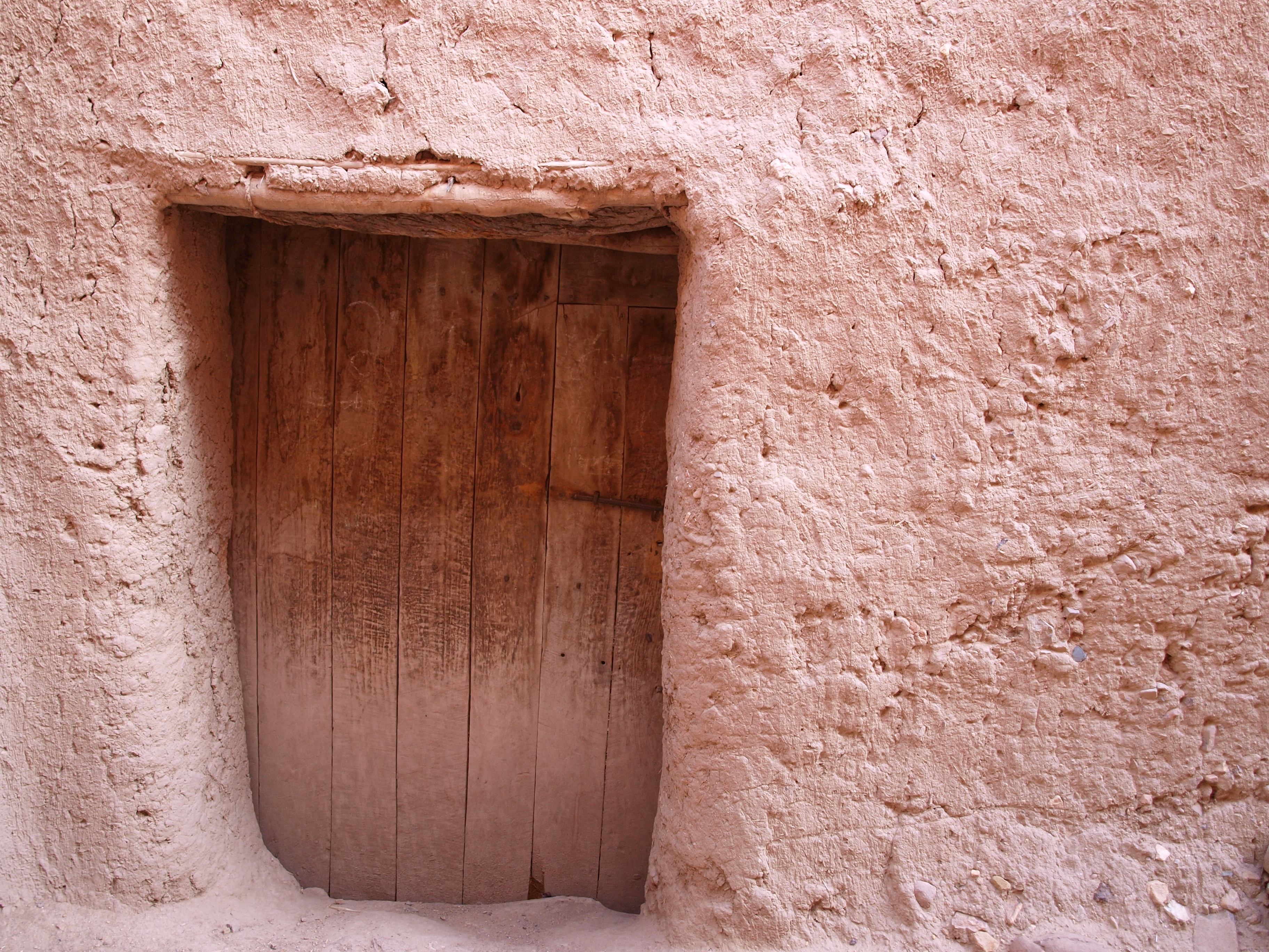 A house built with adobe.